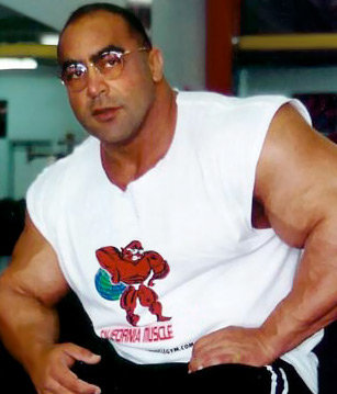 Nasser In The Gym